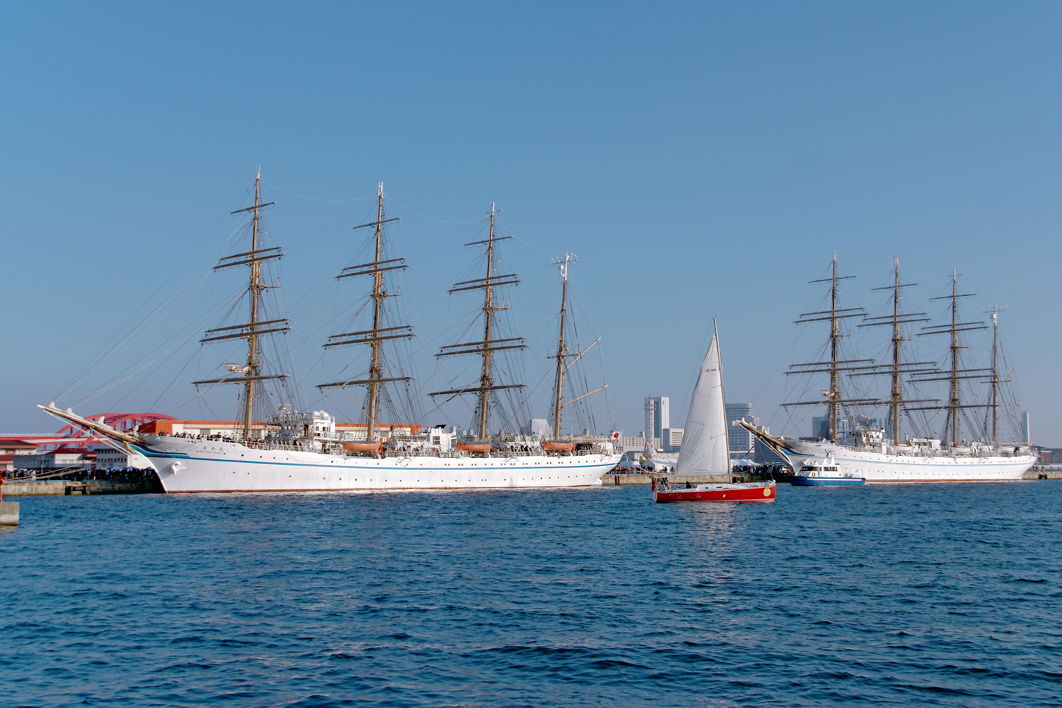 NihonmaruII and KaiomaruII who anchors at "Shinko daiichi-tottei" of the Kobe harbor in Kobe, Hyogo prefecture, Japan